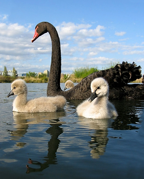 A Black Swan adult with chicks swimming on a lake in Australia.